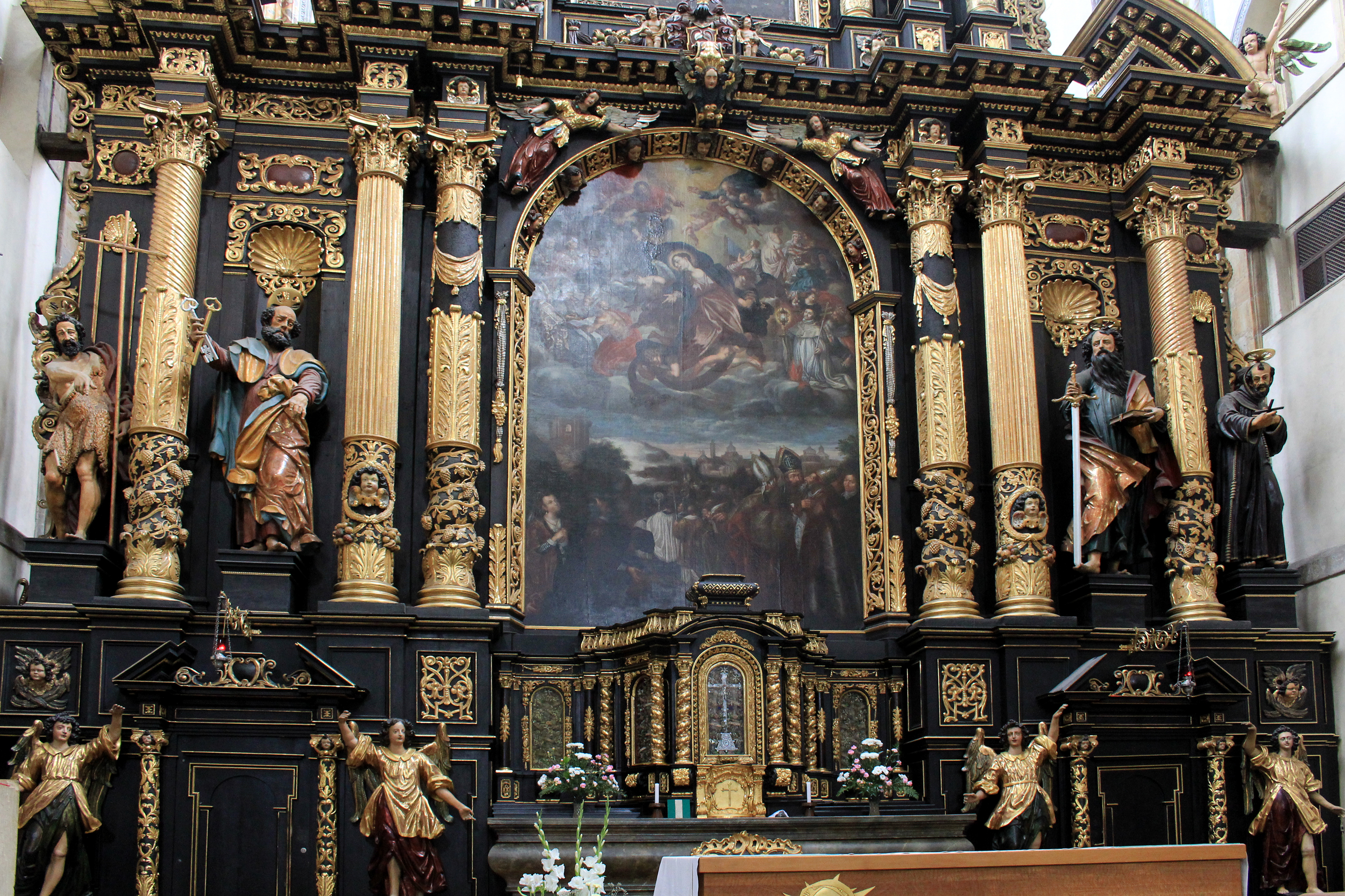 Interior of Church of Our Lady of the Snow, Prague, Czech Republic